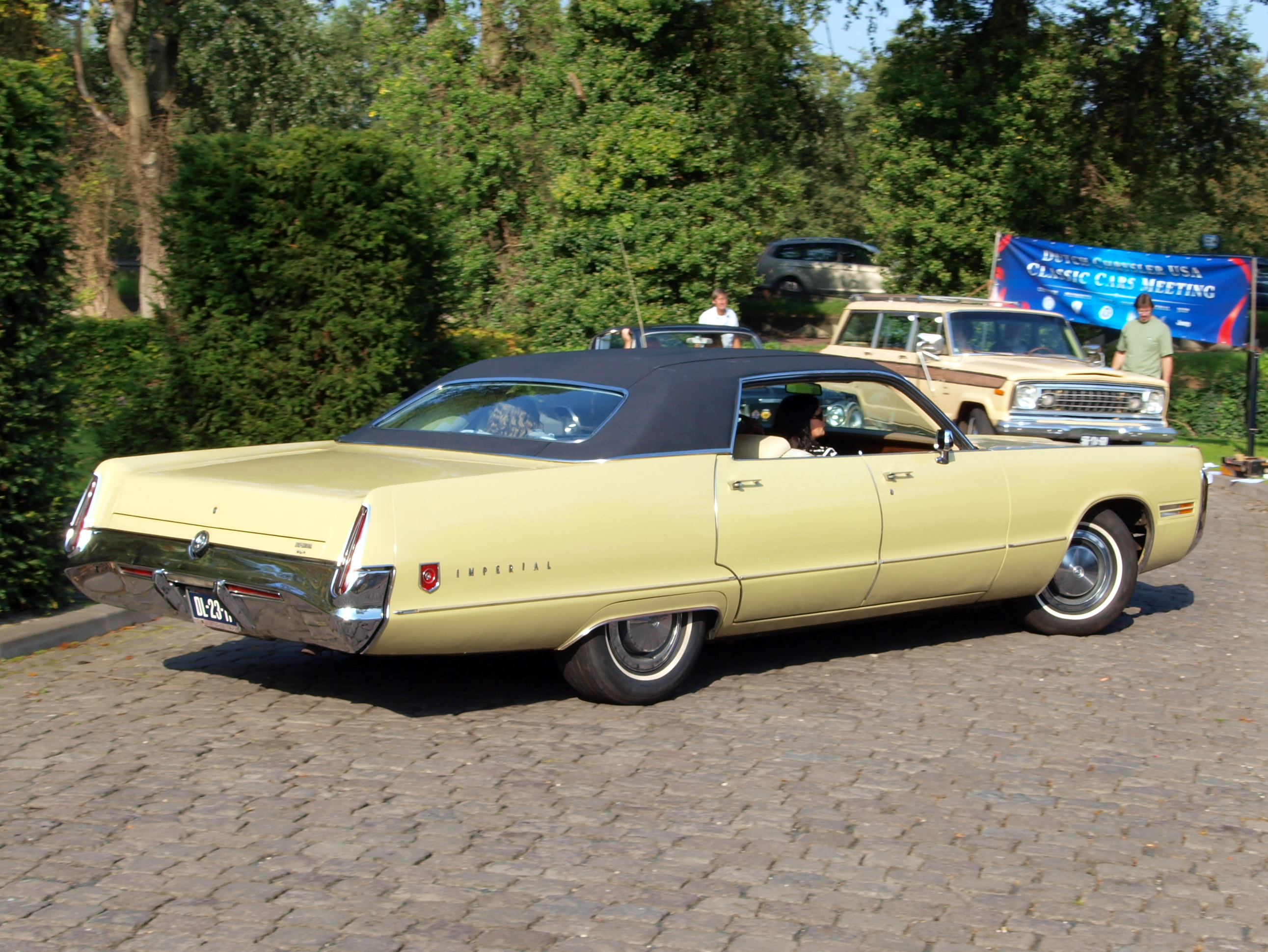 Photographed at the premmesis of the Louwman museum, The Hague, The Netherlands. OLYMPUS DIGITAL CAMERA